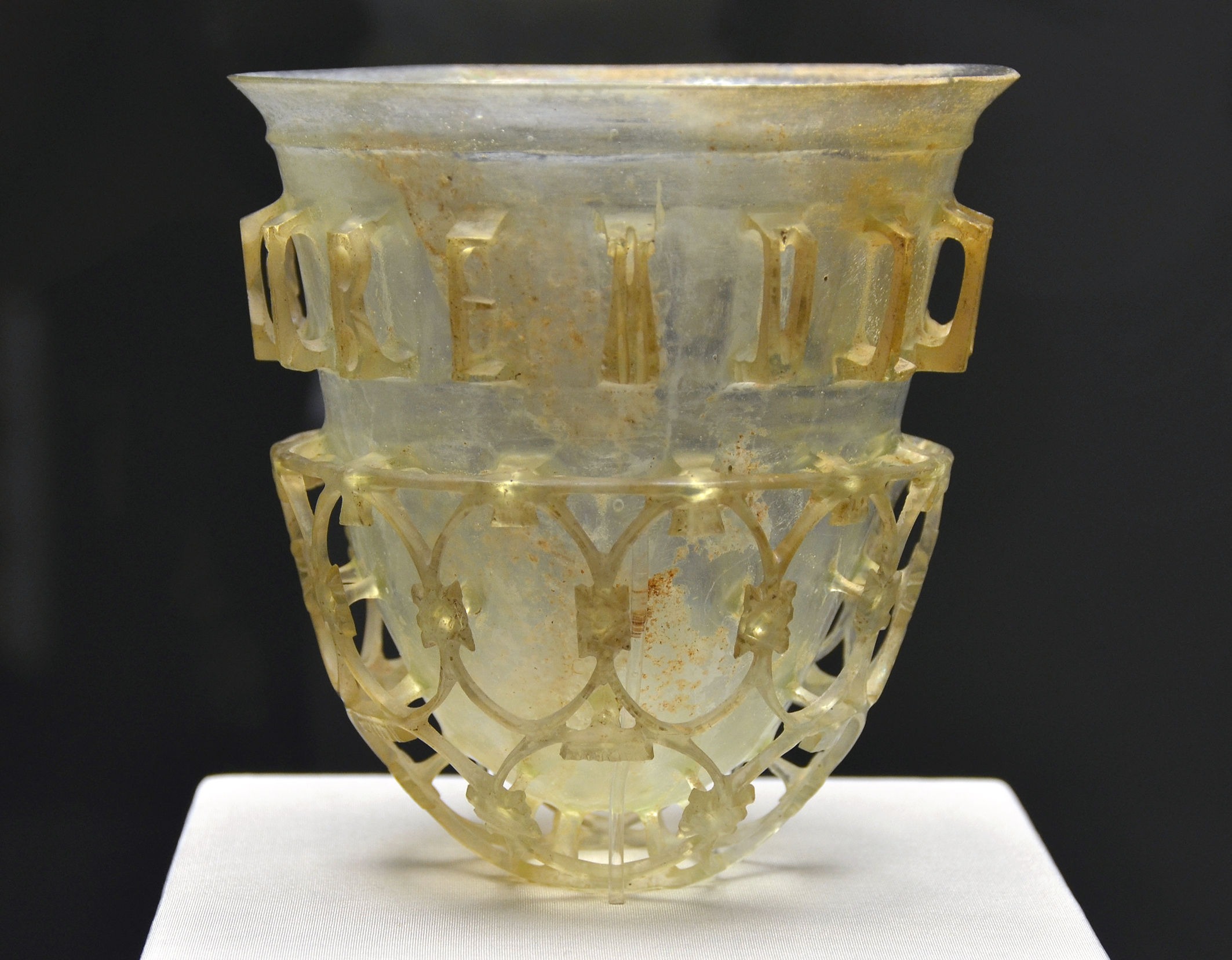 The Munich Cup, Late Roman glassware, second half of the 4th Century AC, found in Cologne. Now in the Staatliche Antikensammlung, in Munich. It's a diatretum, also called a cage cup or a reticulated cup.